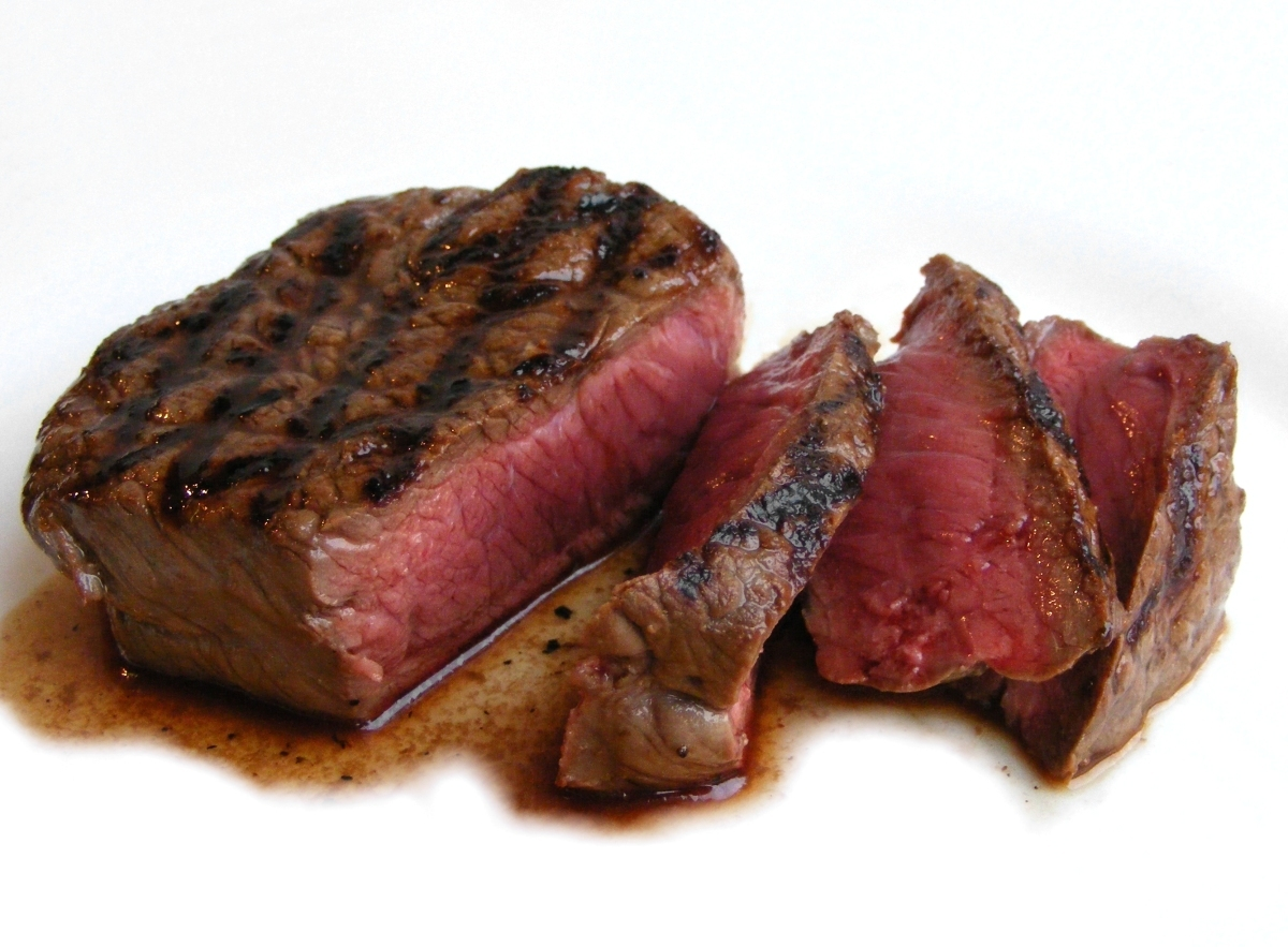 A piece of steak with several cuts made into it.